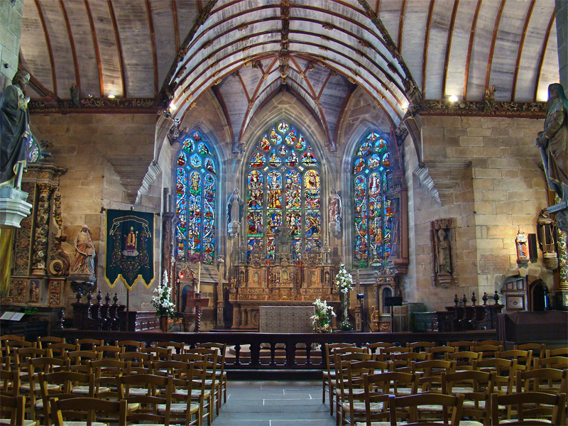 Saint-Germain Church, Pleyben, Finistère, Bretagne, France. Nave and choir. The stained-glass windows represent: on the left, the Tree of Jesse (1879); in the center, the Passion (16th Century); on the right, the Tree of the Church (1879).